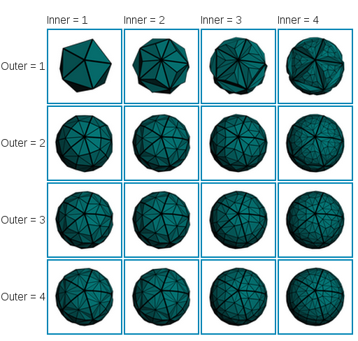 A grid of icosahedrons. This shows the relationship of "inner" and "outer" tess levels in GPU tessellation.